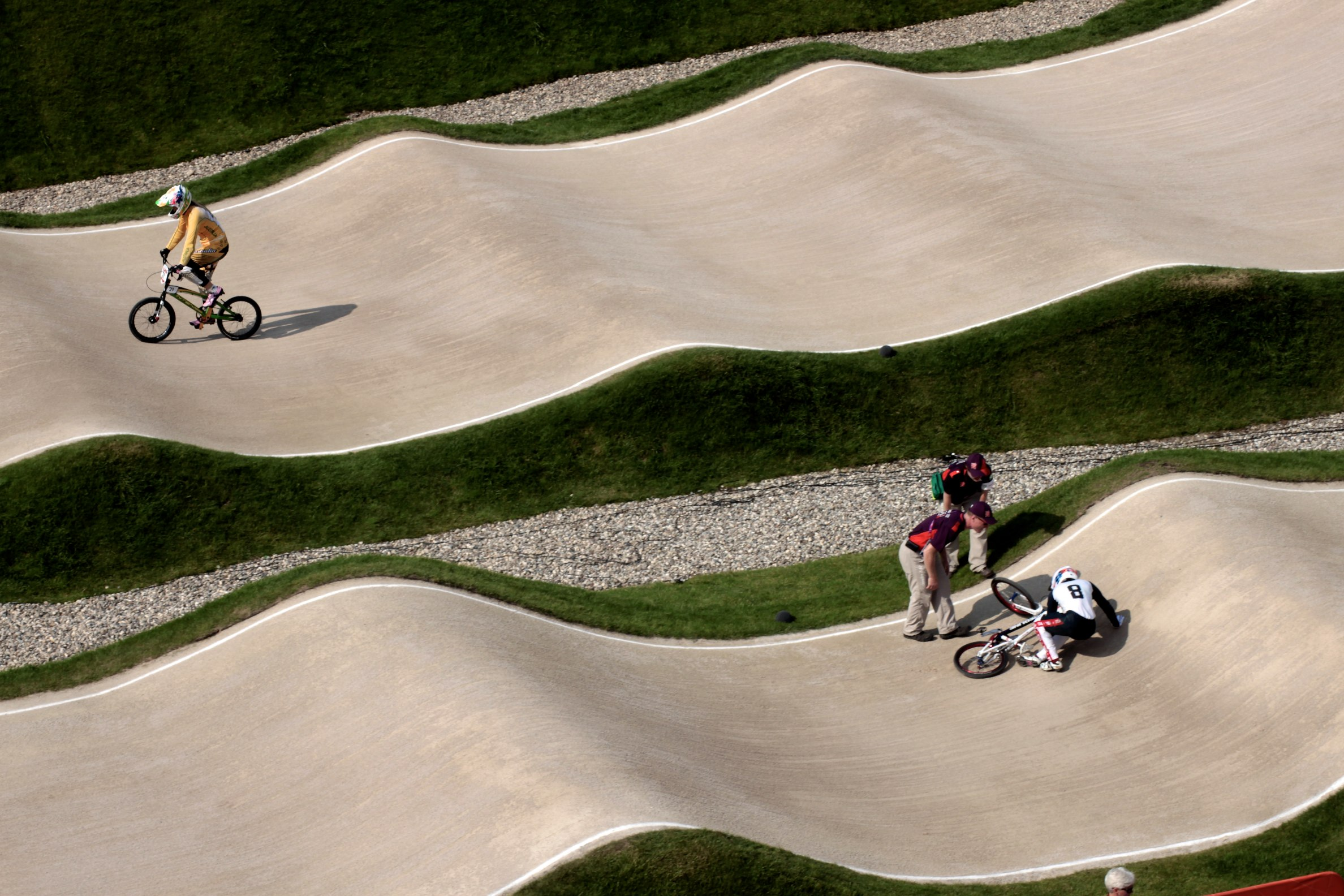 London 2012, The Olympic Games